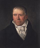 Didrich von Cappelen (1761–1828) Norwegian merchant, ship owner and politician. He represented Skien at the Norwegian Constituent Assembly in 1814. Painting owned by subject's family. Painted before his death in 1828.